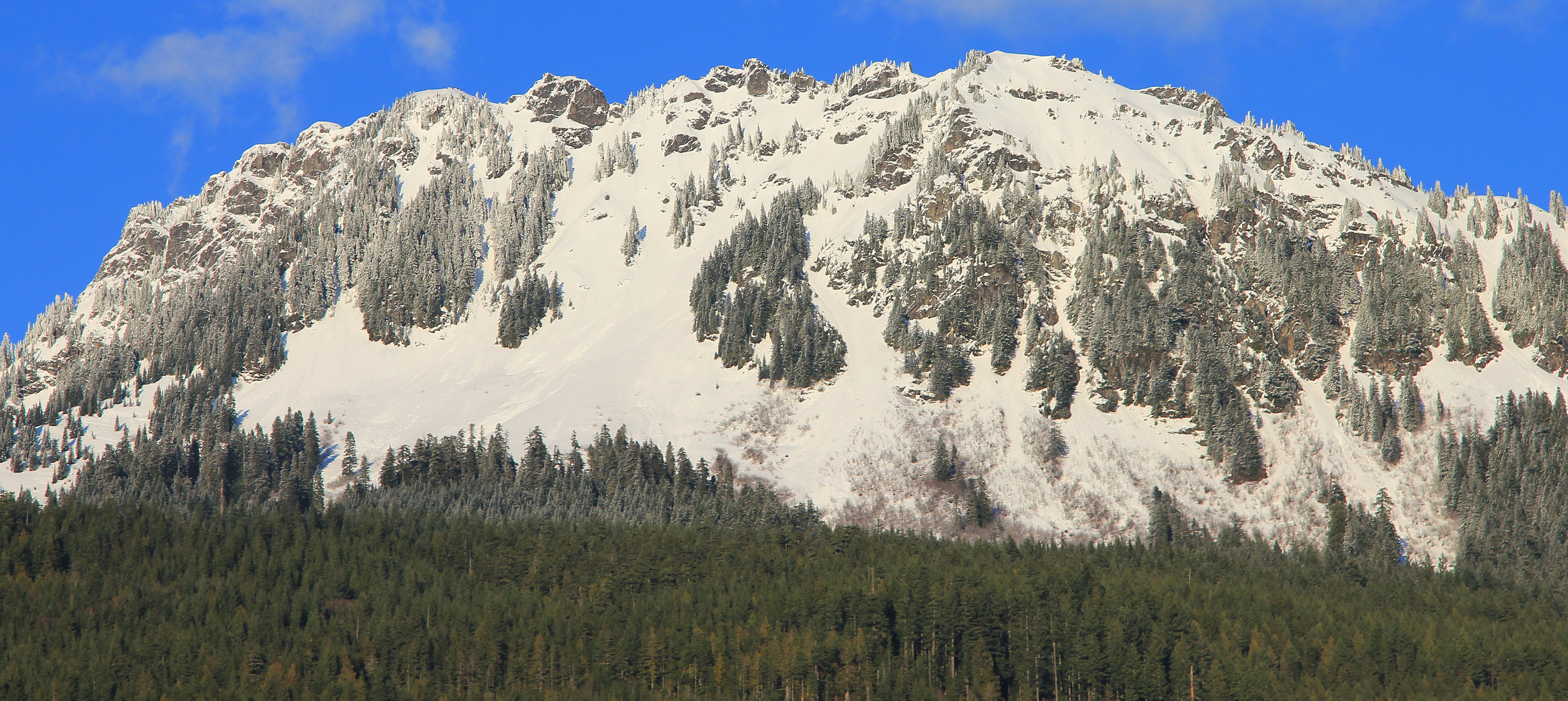 Sauk Mountain winter